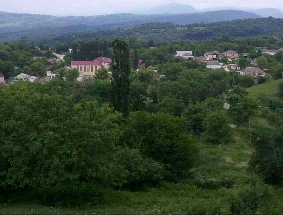 Чеченская Республика Гендерген